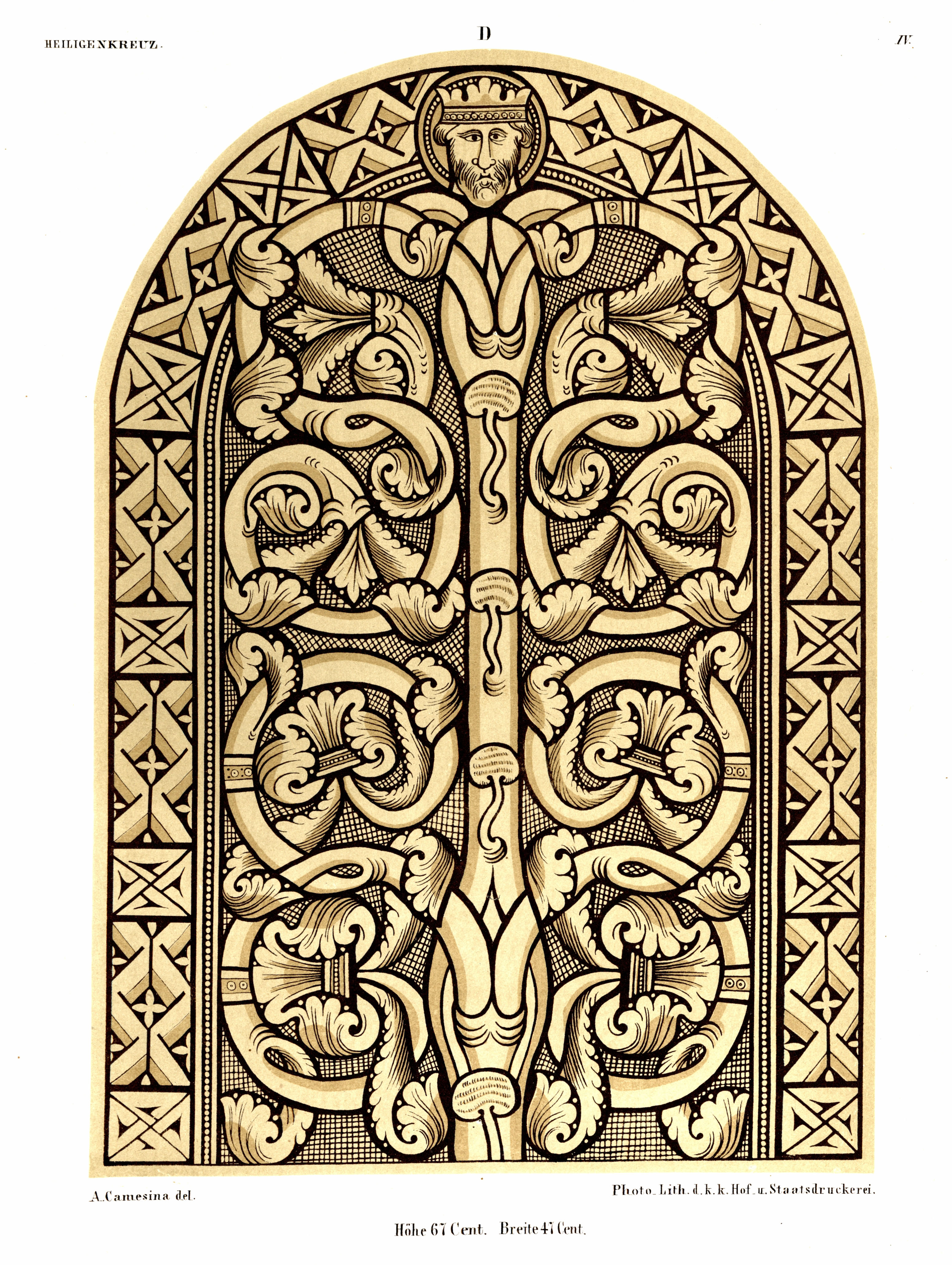 The grisaille windows in the cloisters of Heiligenkreuz abbey ( Lower Austria ) are partly dating back to the 12th and 13th century. Drawing from 1858 and 1859 by Albert Camesina